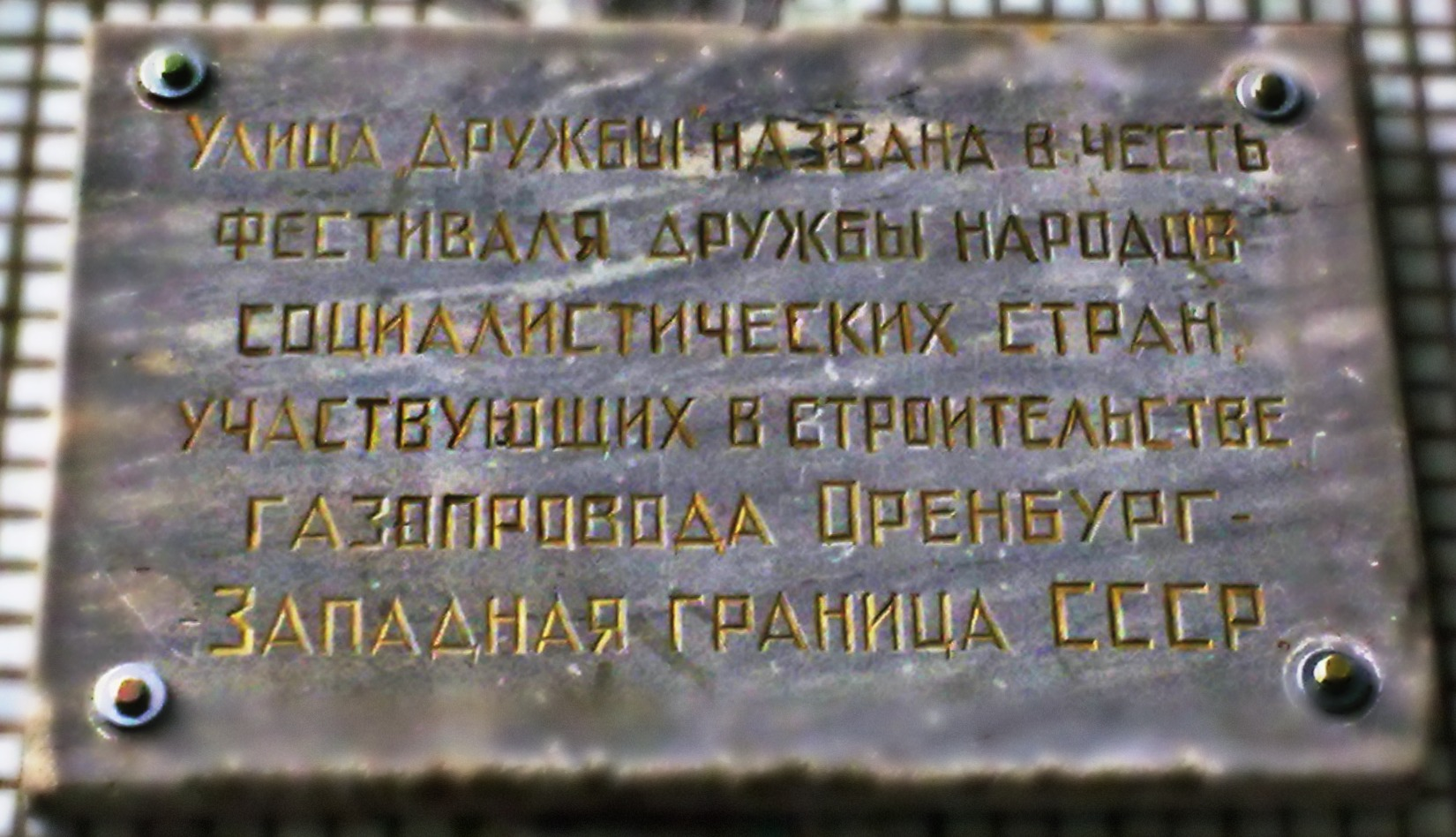 Photo commemorative granite slabs